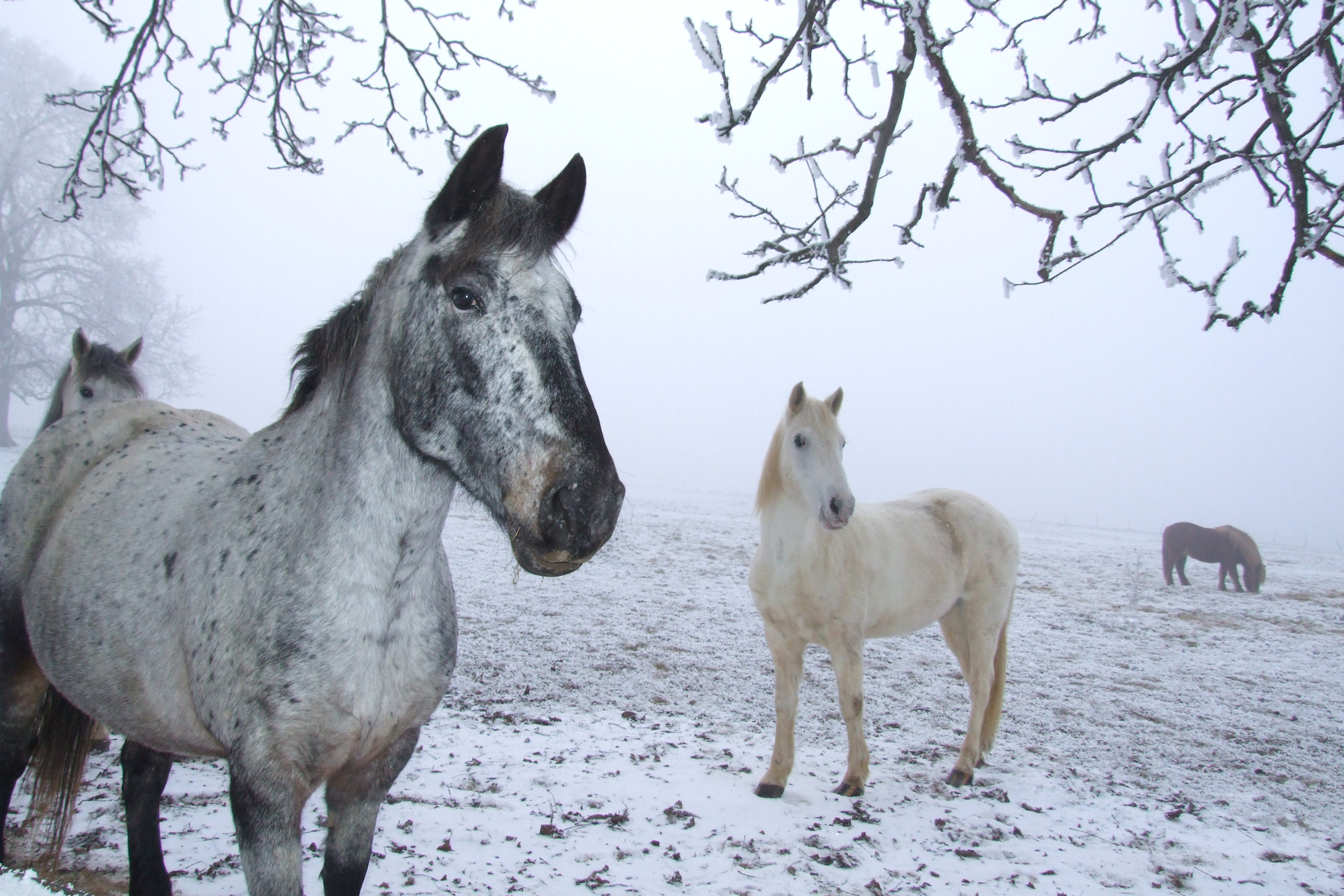 A horse herd on a meadow, winter. Photo taken at a riding academy in Jetterswiller, Alsace. From left to right : ¼-ardennes ¾-appaloosa (varnish roan), half-camargue half-appaloosa (grey), icelandic (chestnut).